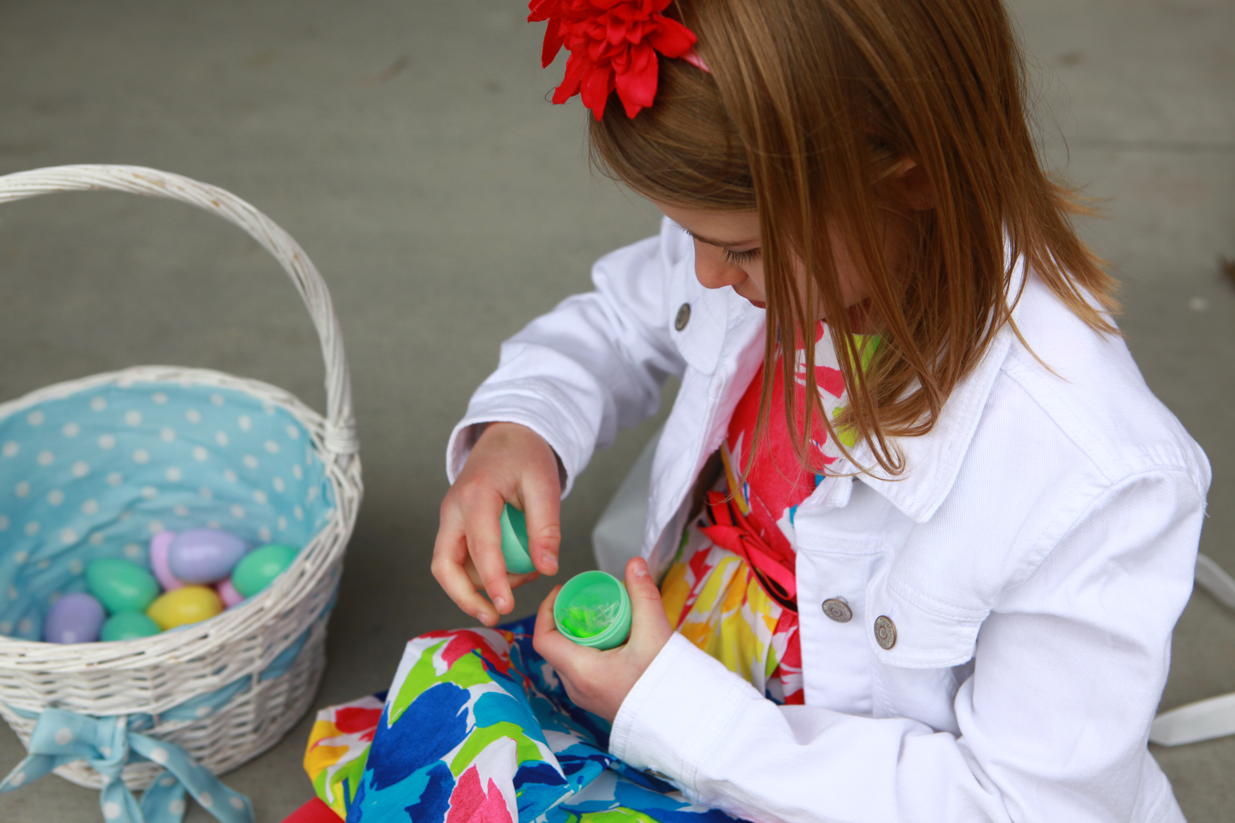 A Marine's daughter opens an Easter egg during an event hosted aboard Camp Lejeune, N.C., March 23, 2013. The family readiness officer for Combat Logistics Battalion 6, 2nd Marine Logistics Group filled the eggs with toys and candy. Unit: II Marine Expeditionary Force